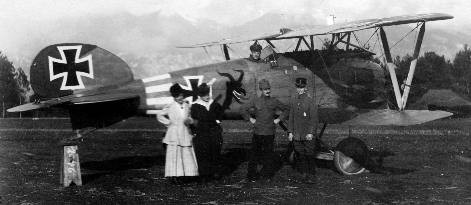 Albatros D.III (OAW) Jasta 31 Vzfw. Boldt